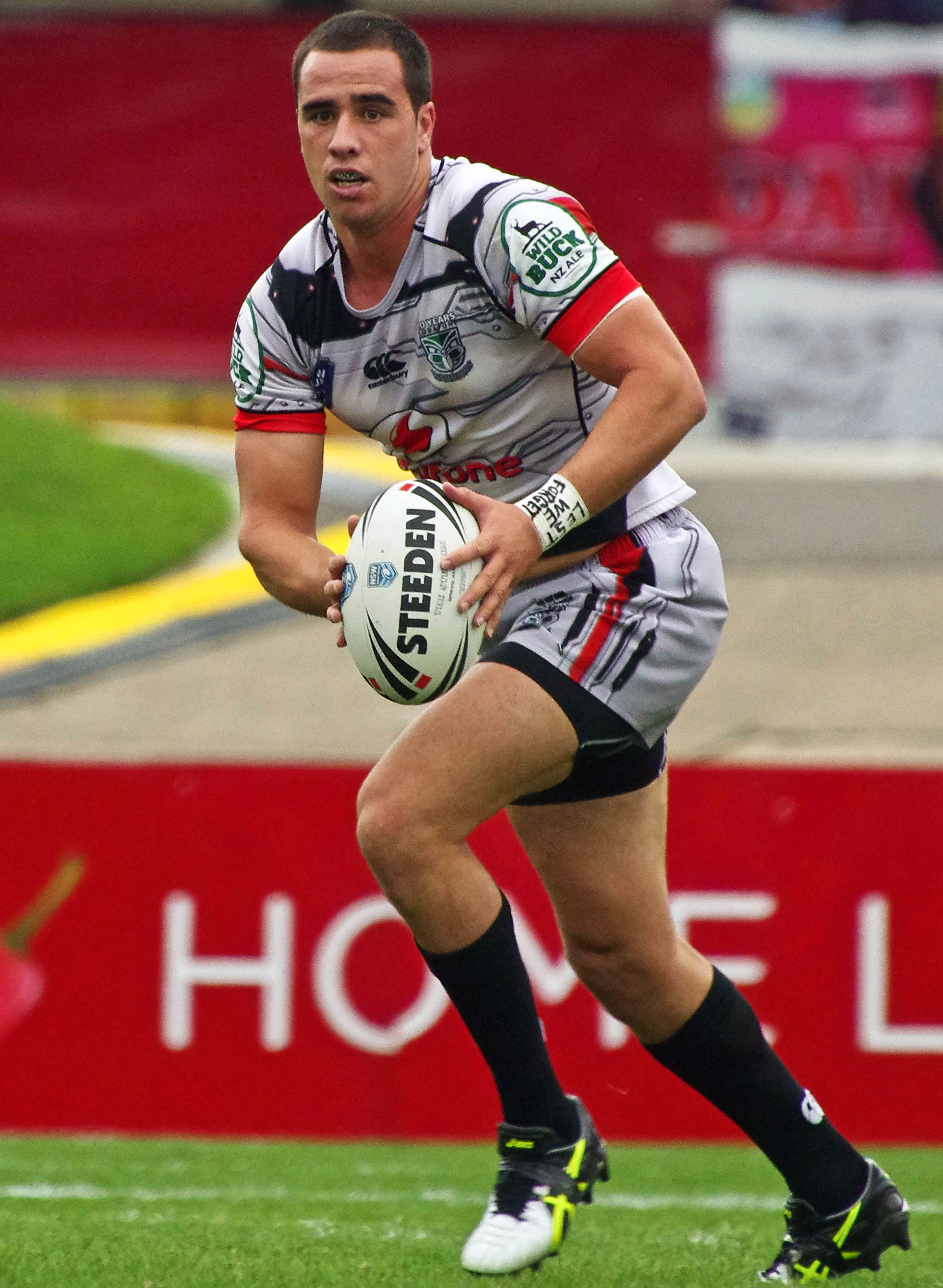 Api Pewhairangi